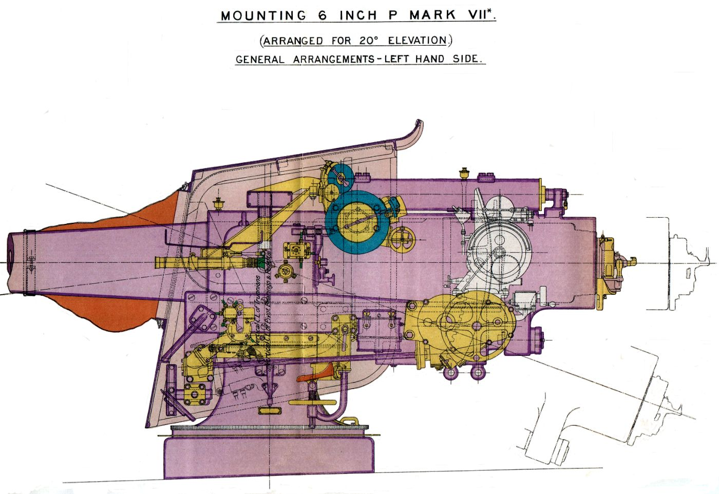 Left elevation diagram showing British BL 6-inch Mk XII naval gun on P VII* mounting arranged for 20° elevation. For right side view see File:BL 6 inch Mk XII gun P VII* mounting right elevation diagram.jpg This mounting was deployed on : Arethusa class cruisers (1913) C class cruisers